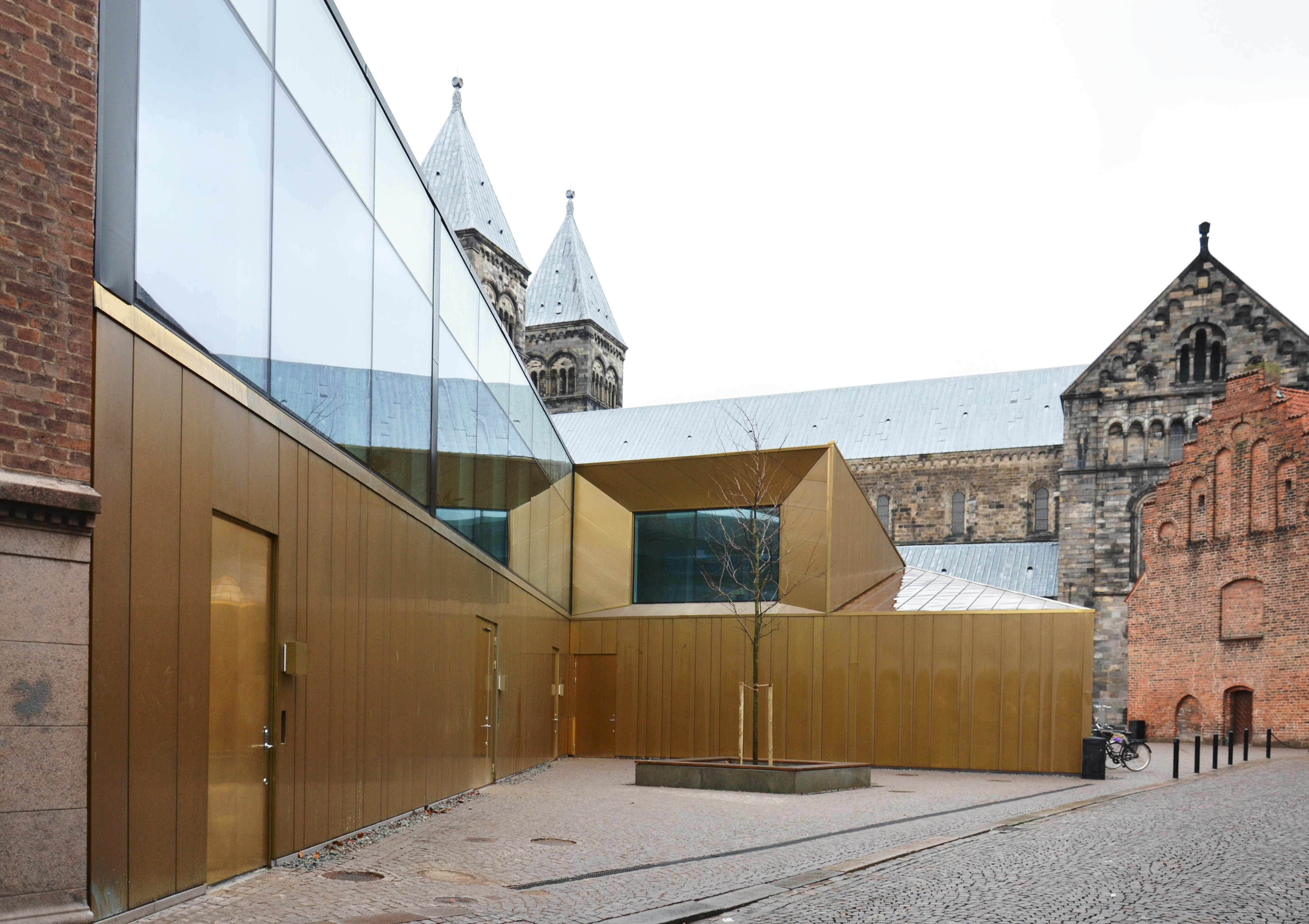 The Visitors' Centre of the Cathedral of Lund, Sweden